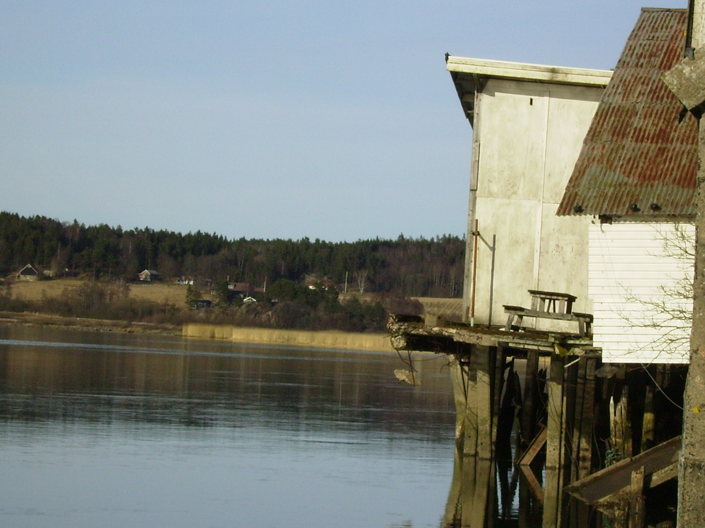 Picture of Gota alv, march 2009.